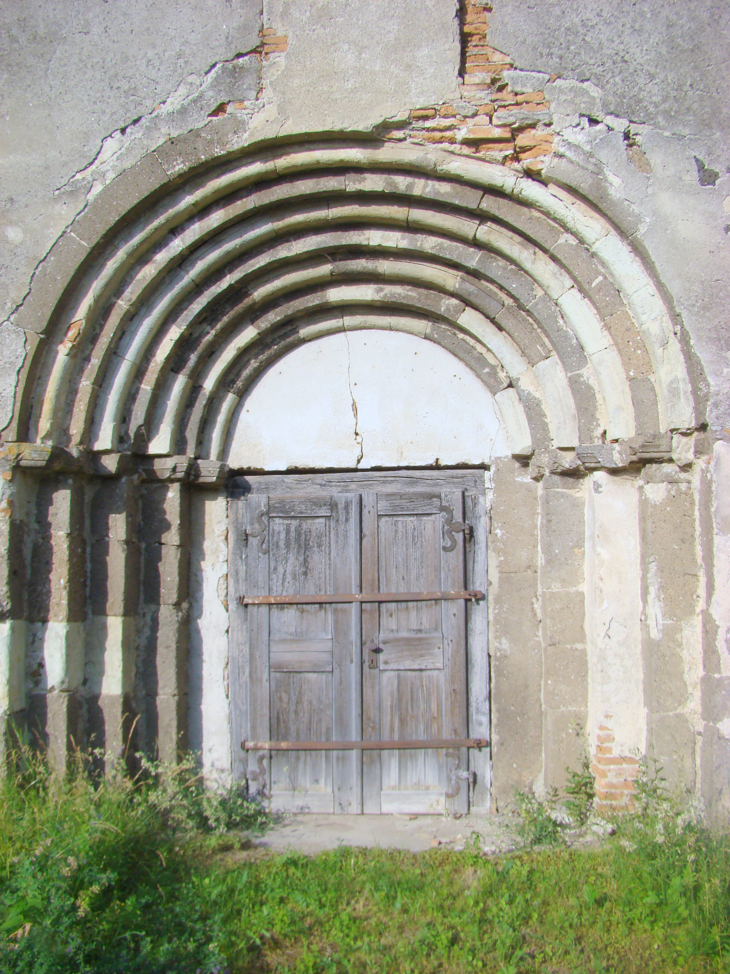 Fortified church in Ungra, Braşov County, Romania